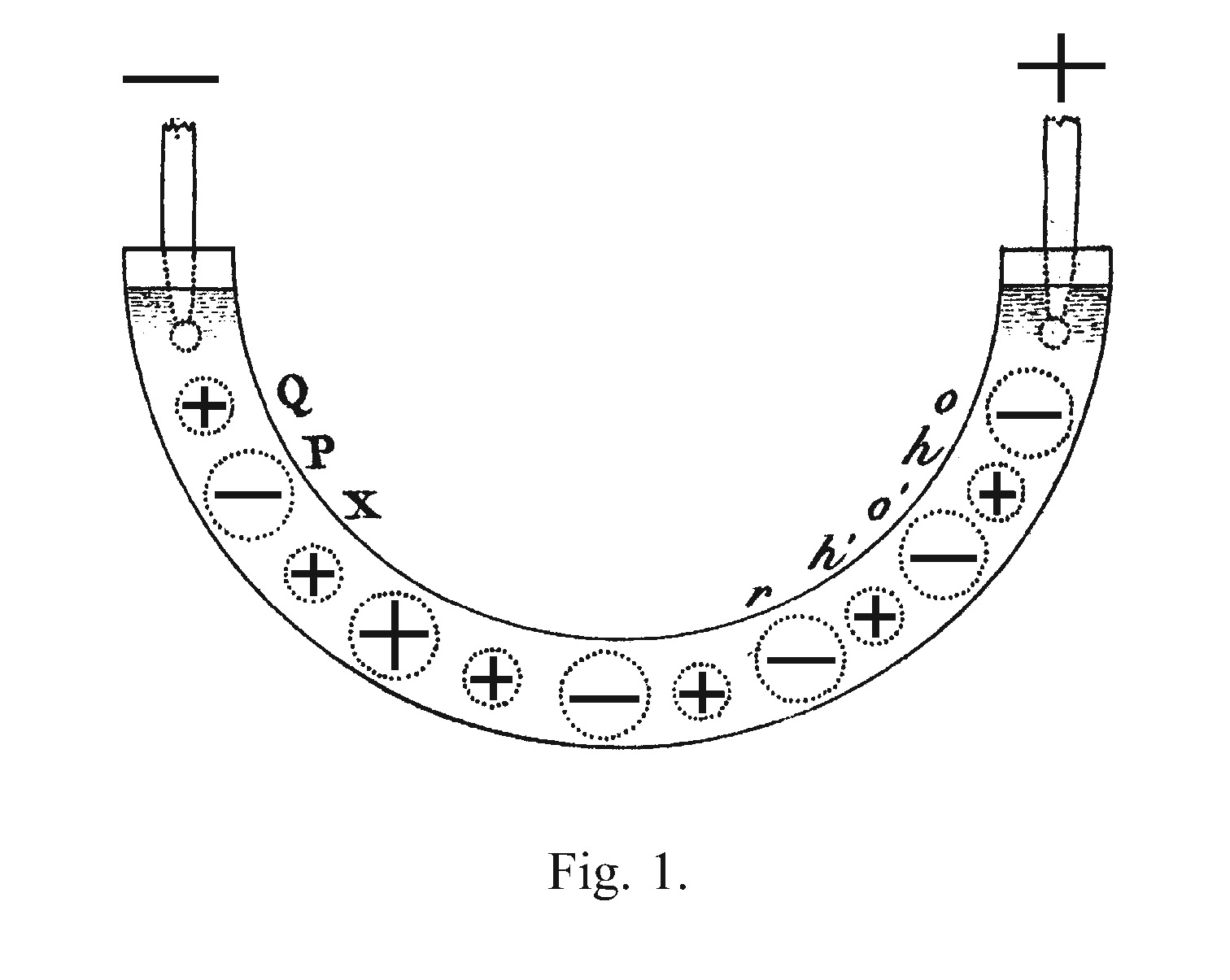 Grotthuss Mechanism